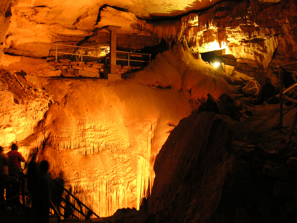 Mammoth_Cave_National_Park (Kentucky)